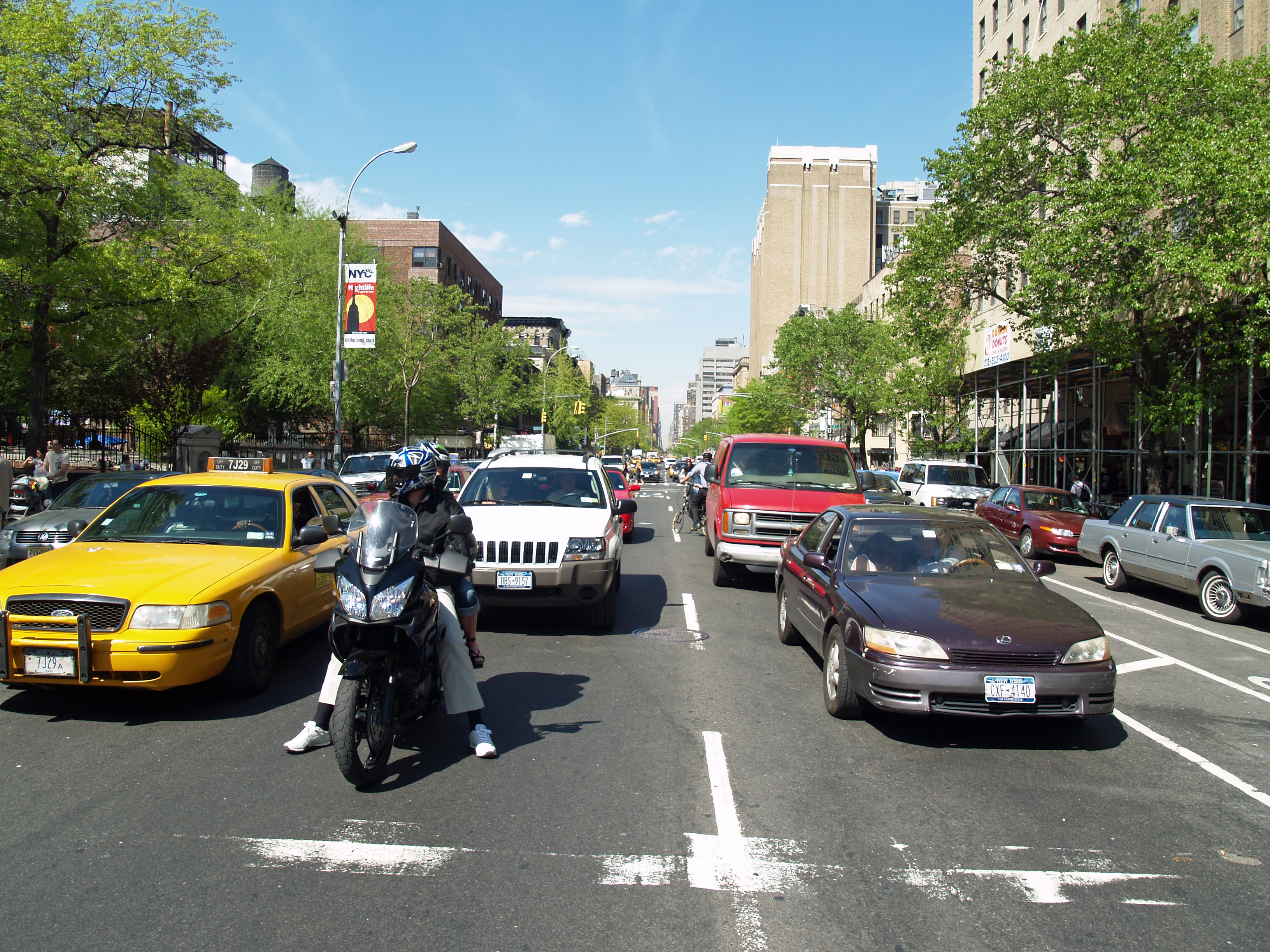 Second Avenue in New York City